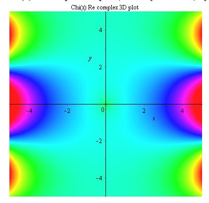 Chi(x) Re complex density plot